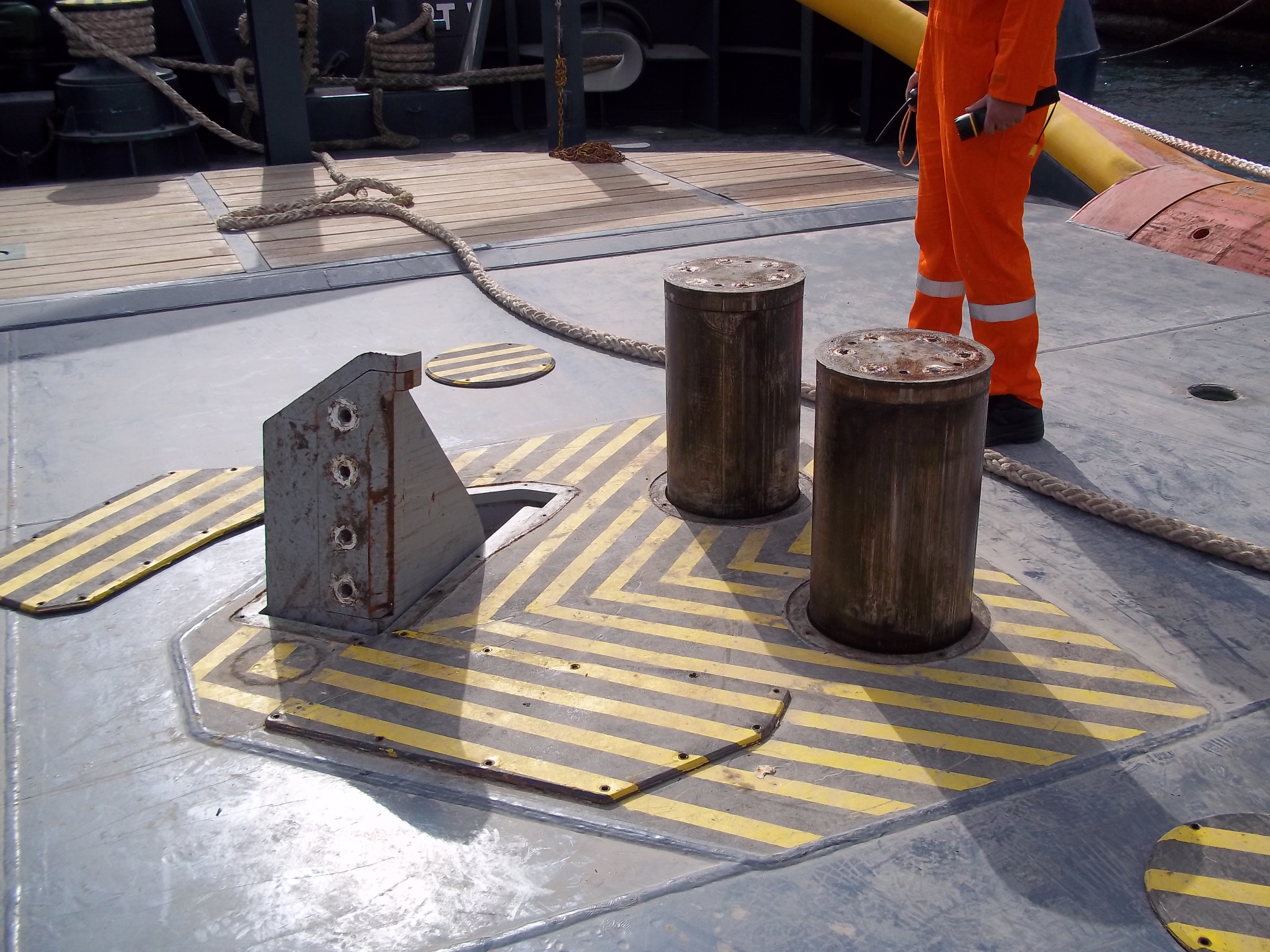 Shark jaws and towing pins on deck of AHTS vessel